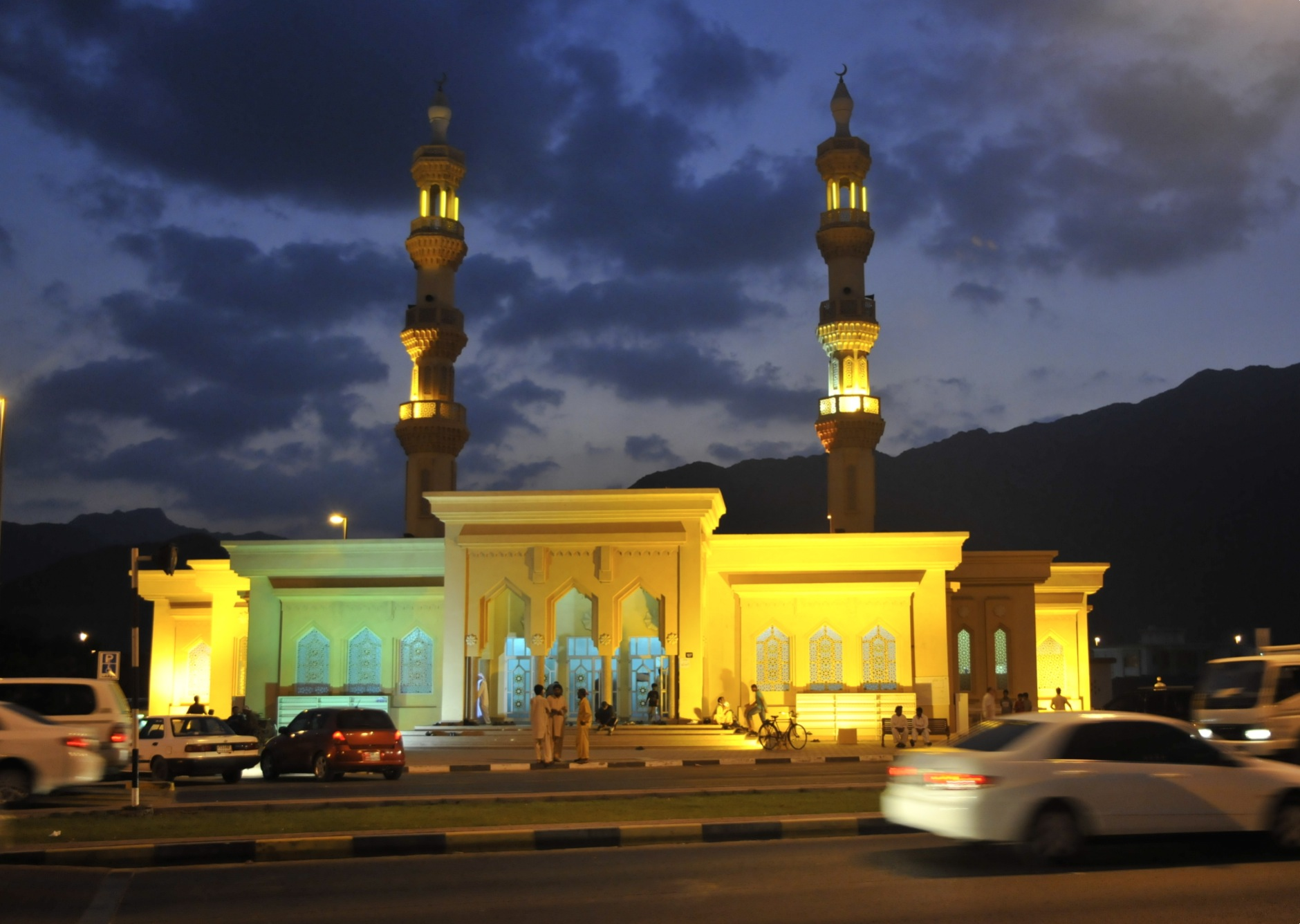 Mosque in Khor Fakkan Sharjah, evenenig prayer time.